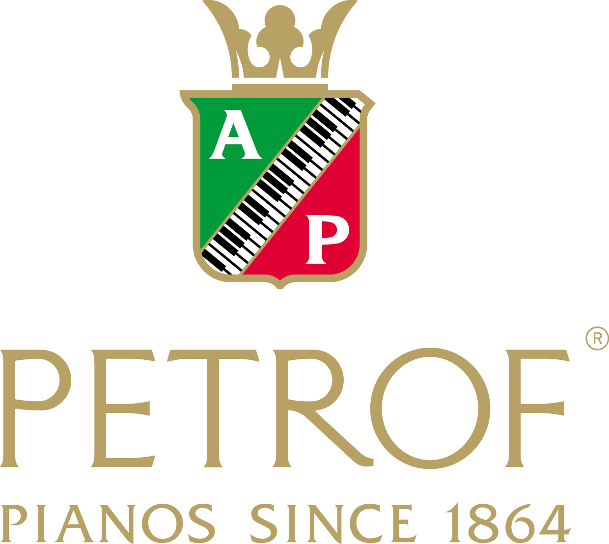 Logo of the Petrof Company